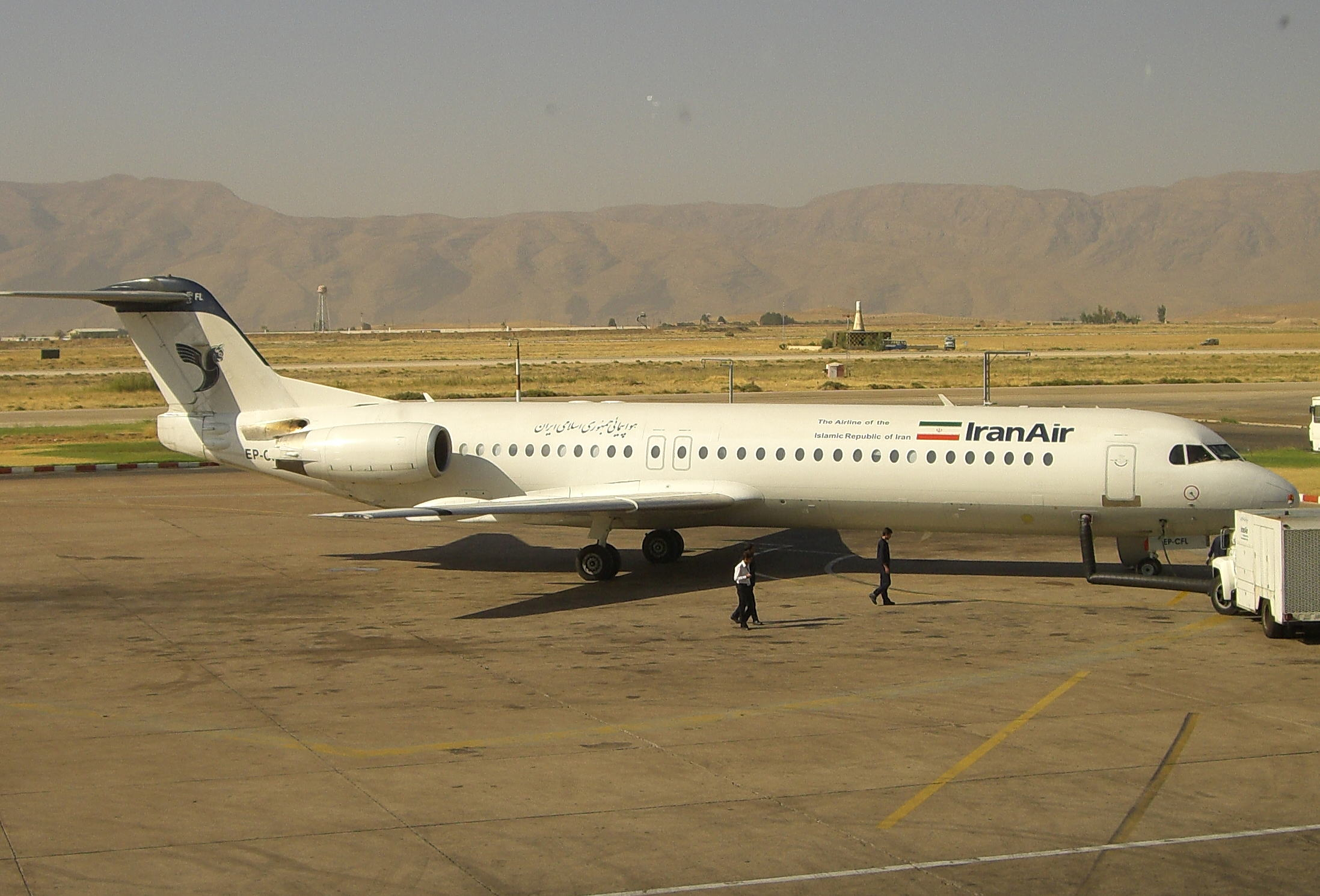 Fokker100 of Iran Air. Taked Photograh at Shiraz Int'l Airport.